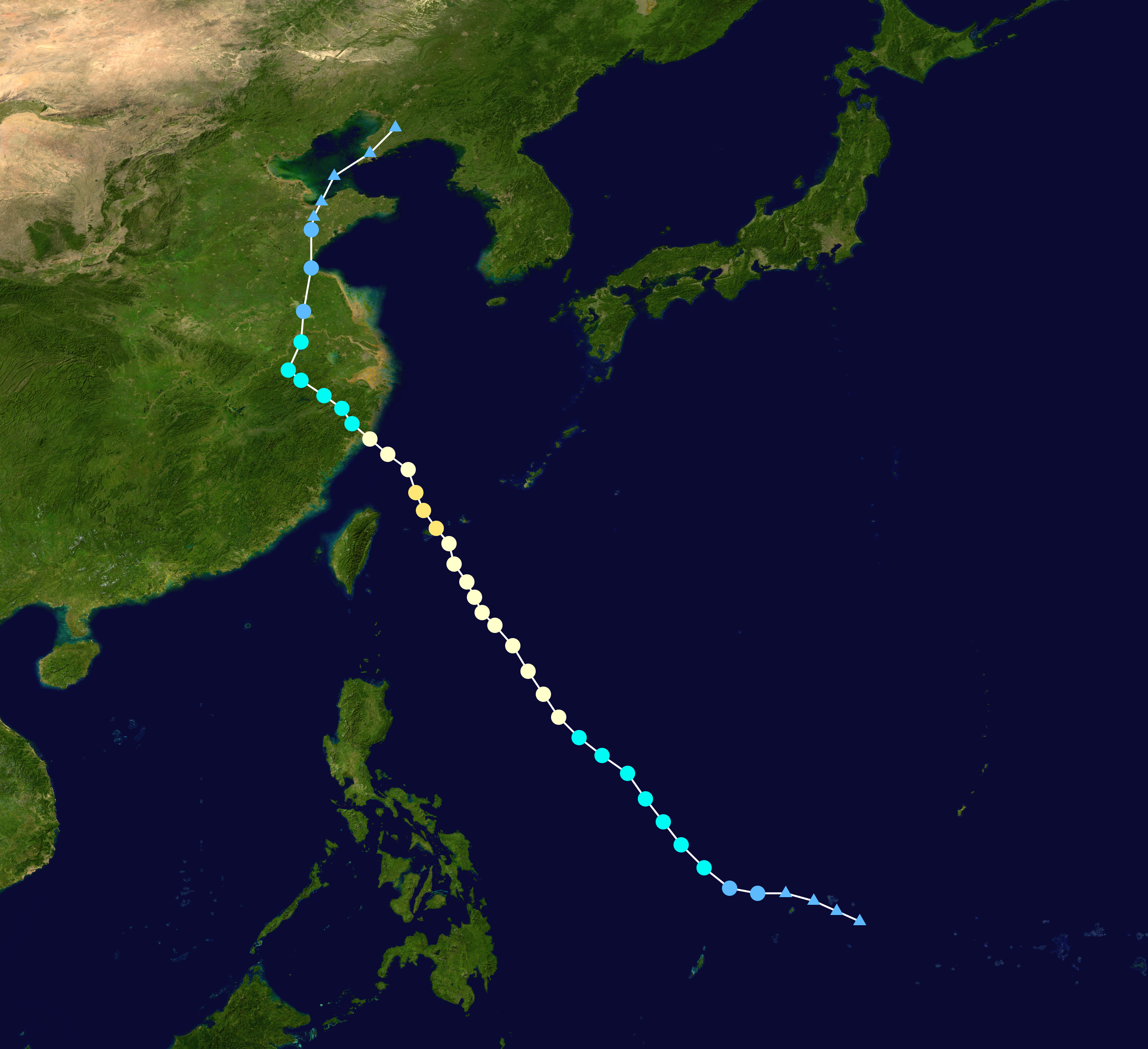 Track map of Typhoon Matsa of the 2005 Pacific typhoon season. The points show the location of the storm at 6-hour intervals. The colour represents the storm's maximum sustained wind speeds as classified in the Saffir–Simpson scale (see below), and the shape of the data points represent the nature of the storm, according to the legend below. Saffir–Simpson scale Tropical depression≤38 mph≤62 km/h Category 3111–129 mph178–208 km/h Tropical storm39–73 mph63–118 km/h Category 4130–156 mph209–251 km/h Category 174–95 mph119–153 km/h Category 5≥157 mph≥252 km/h Category 296–110 mph154–177 km/h Unknown Storm type Tropical cyclone Subtropical cyclone Extratropical cyclone / Remnant low / Tropical disturbance / Monsoon depression